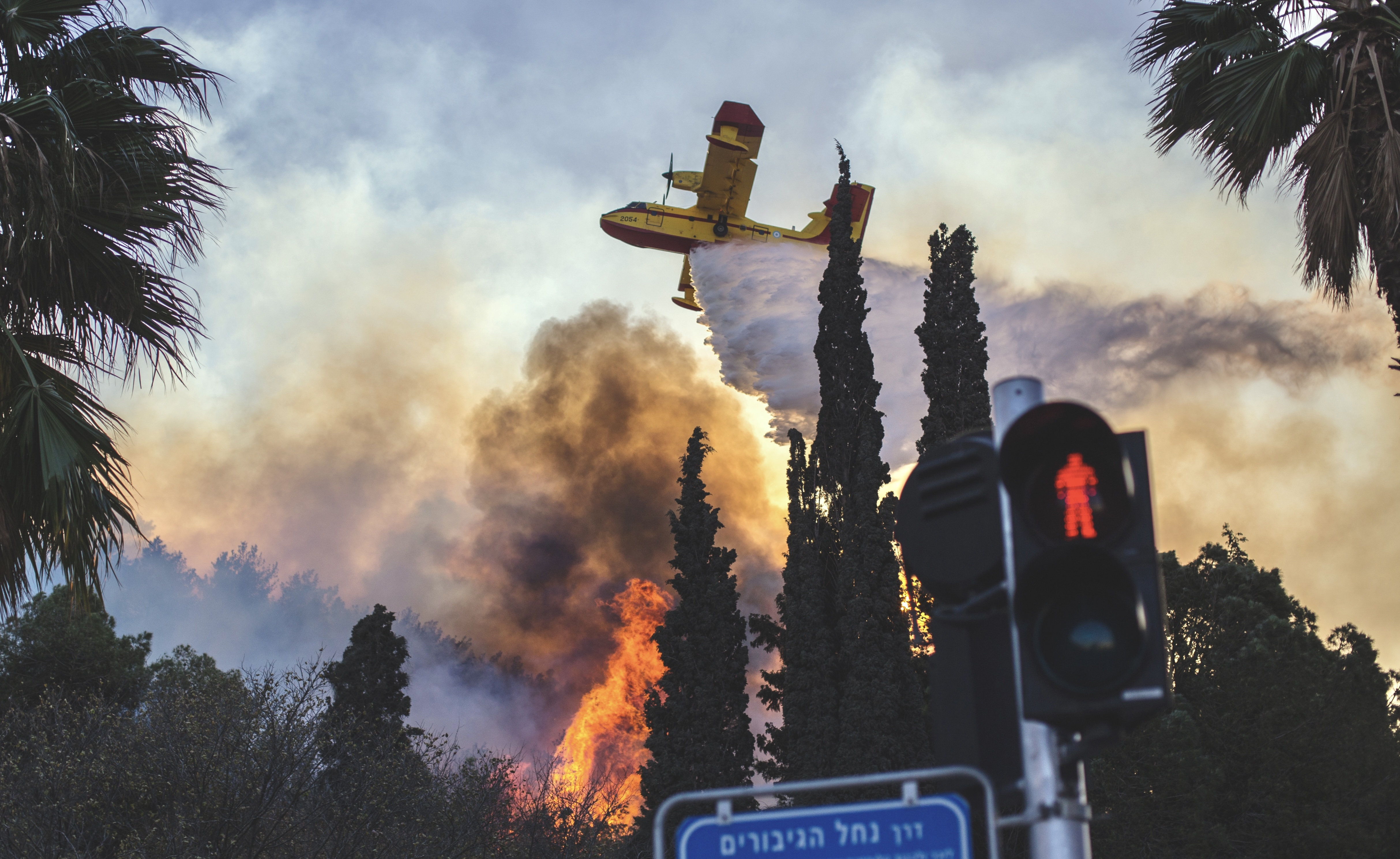 2054 CL-415 aircraft of the Hellenic Air Force helping in the fight against the fires in Haifa. The street sign marks Nahal Gibborim road. (traslit. Heros river)